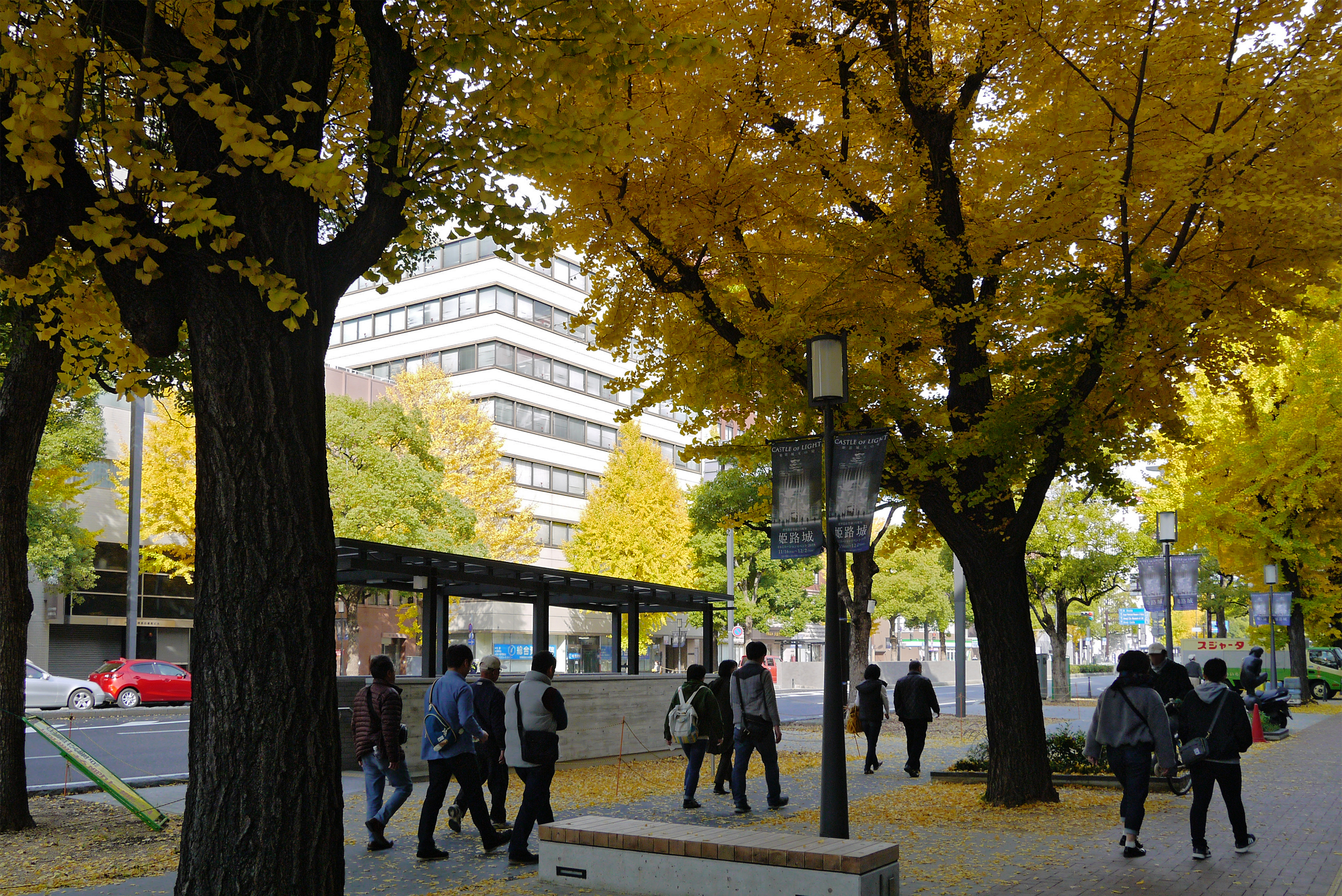 Miki Art Museum, Himeji, Hyogo prefecture, Japan Panasonic Lumix DMC-GF5